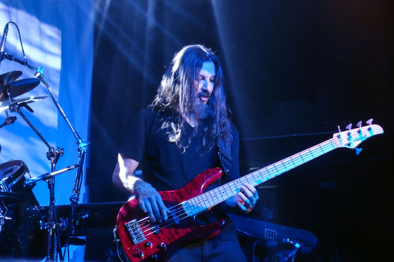 Bryan Beller performing with Joe Satriani (Aarhus, Denmark 2016)